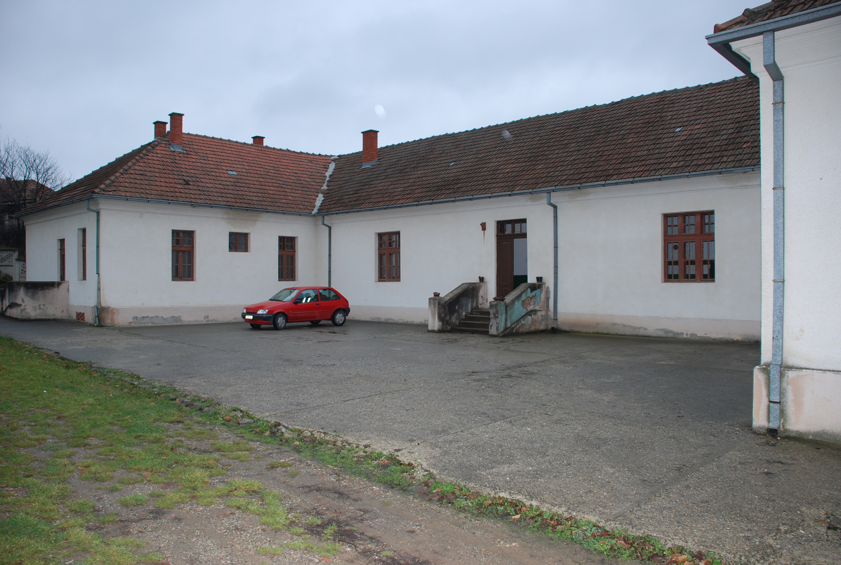 слика школе